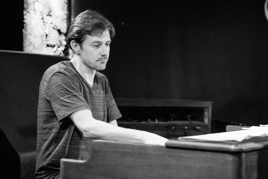 Steinar Nickelsen in a concert with Bjørn Vidar Solli at Herr Nilsen. The concert took place on 02. September 2019 in Oslo. Lineup:Bjørn Vidar Solli (guitar)Håkon Kornstad (saxophone)Steinar Nickelsen (hammond organ)Jon Wikan (drums)